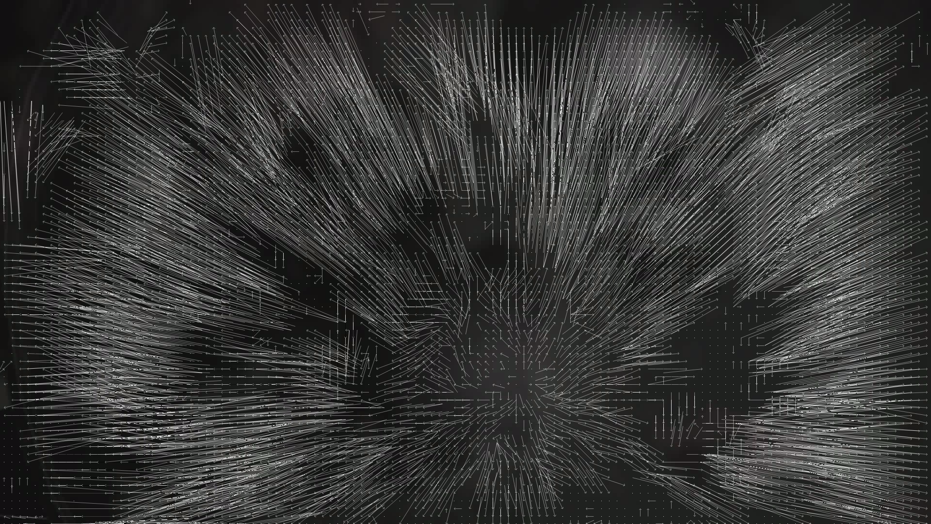 Visualized forward predicted motion vectors of a P-frame (mplayer option "-lavdopts vismv=1") in "Elephants Dream", 1080p. The camera moves quickly towards a target in this shot, producing the pronounced "zoom" effect in this still.